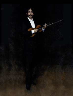 Arrangement in Black (Portrait of Señor Pablo de Sarasate) by James Abbott McNeill Whistler, 1884, oil on canvas